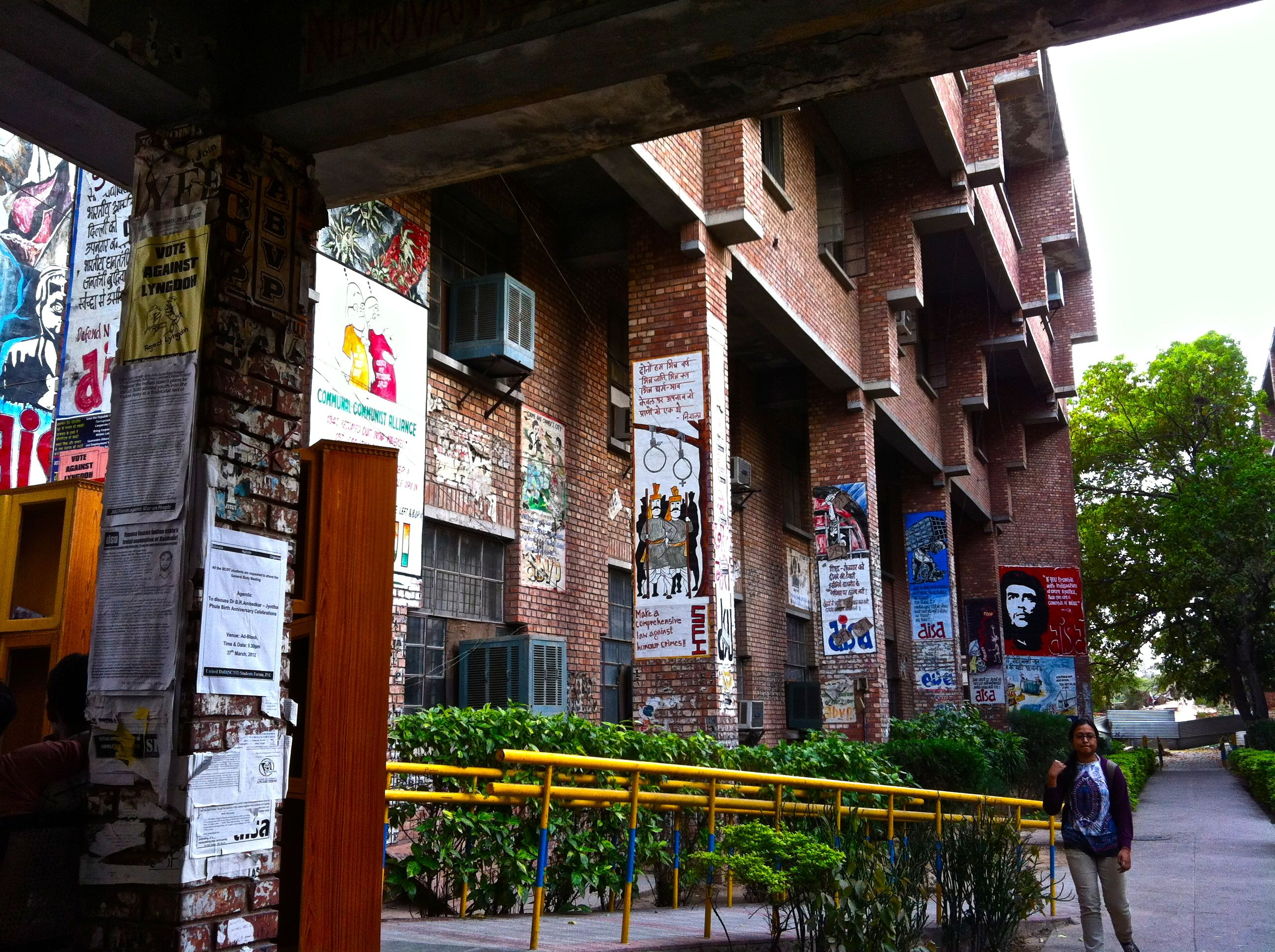 School of languages, Jawaharlal Nehru University, New Delhi, India.